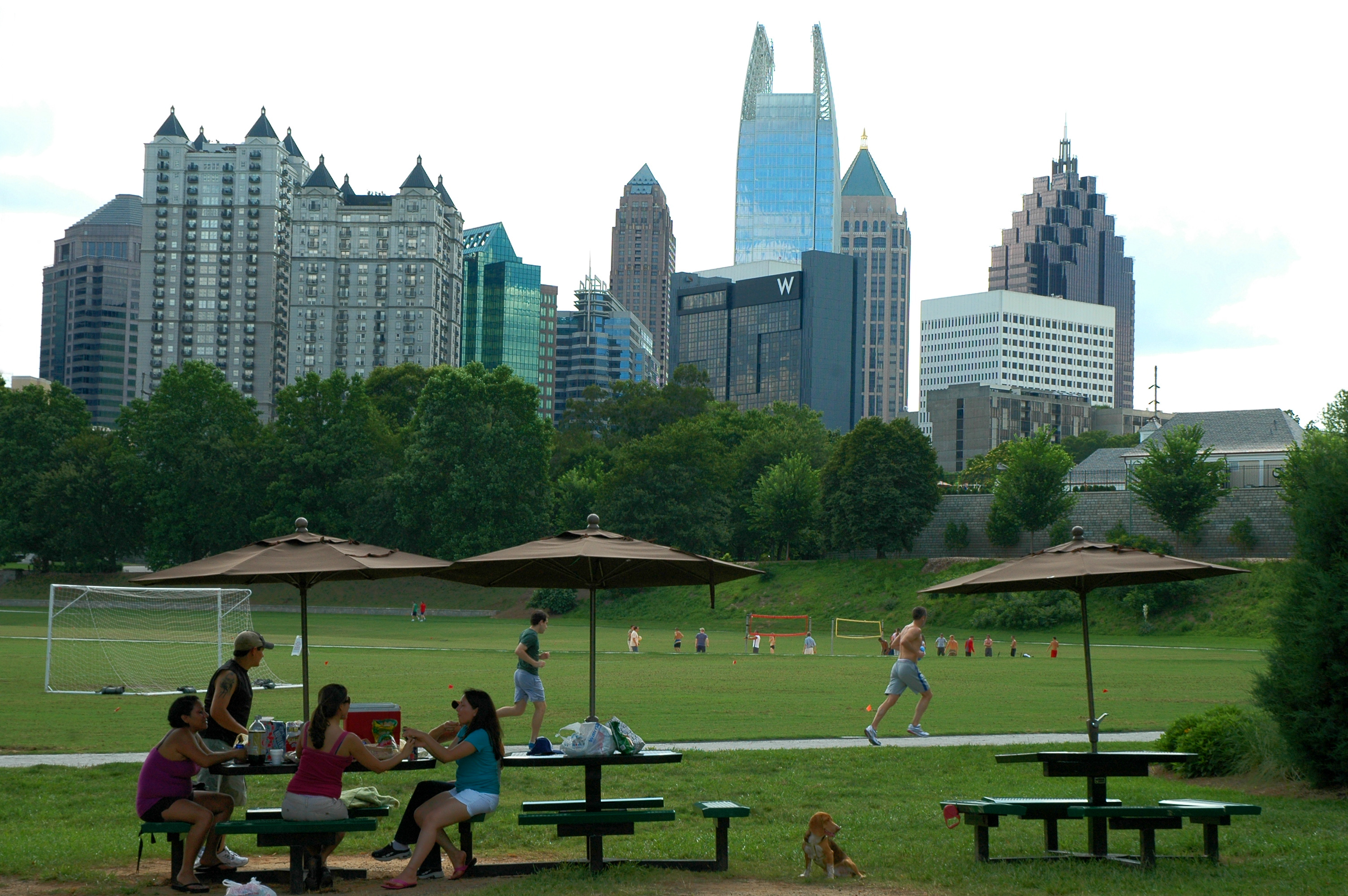 Piedmont Park was designed by the same man who designed Central Park.